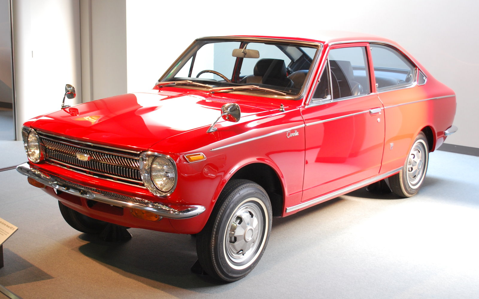 1st generation Toyota_Corolla-Sprinter Model KE15